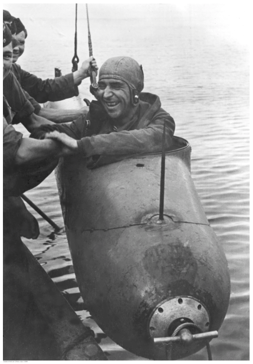 Walter Gerhold back from a mission, 1944 July.